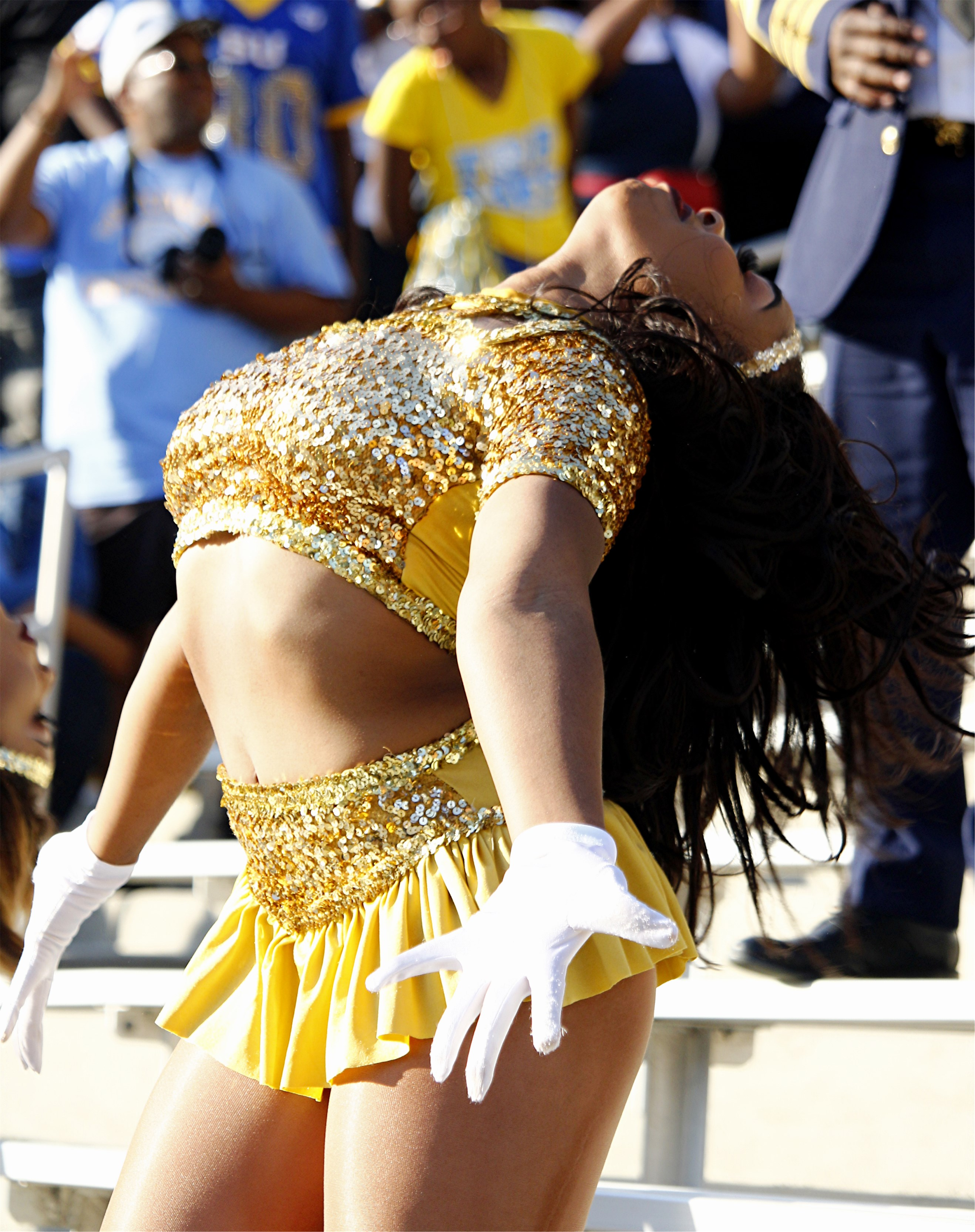 State Fair Showdown 2019 Southern University (SU) Human Jukebox feat. Fabulous Dancing Dolls vs. Texas Southern University (TXSU) Cotton Bowl Stadium Dallas, TX 10/19/19 HBCU Band Warning: Harsh Lighting**